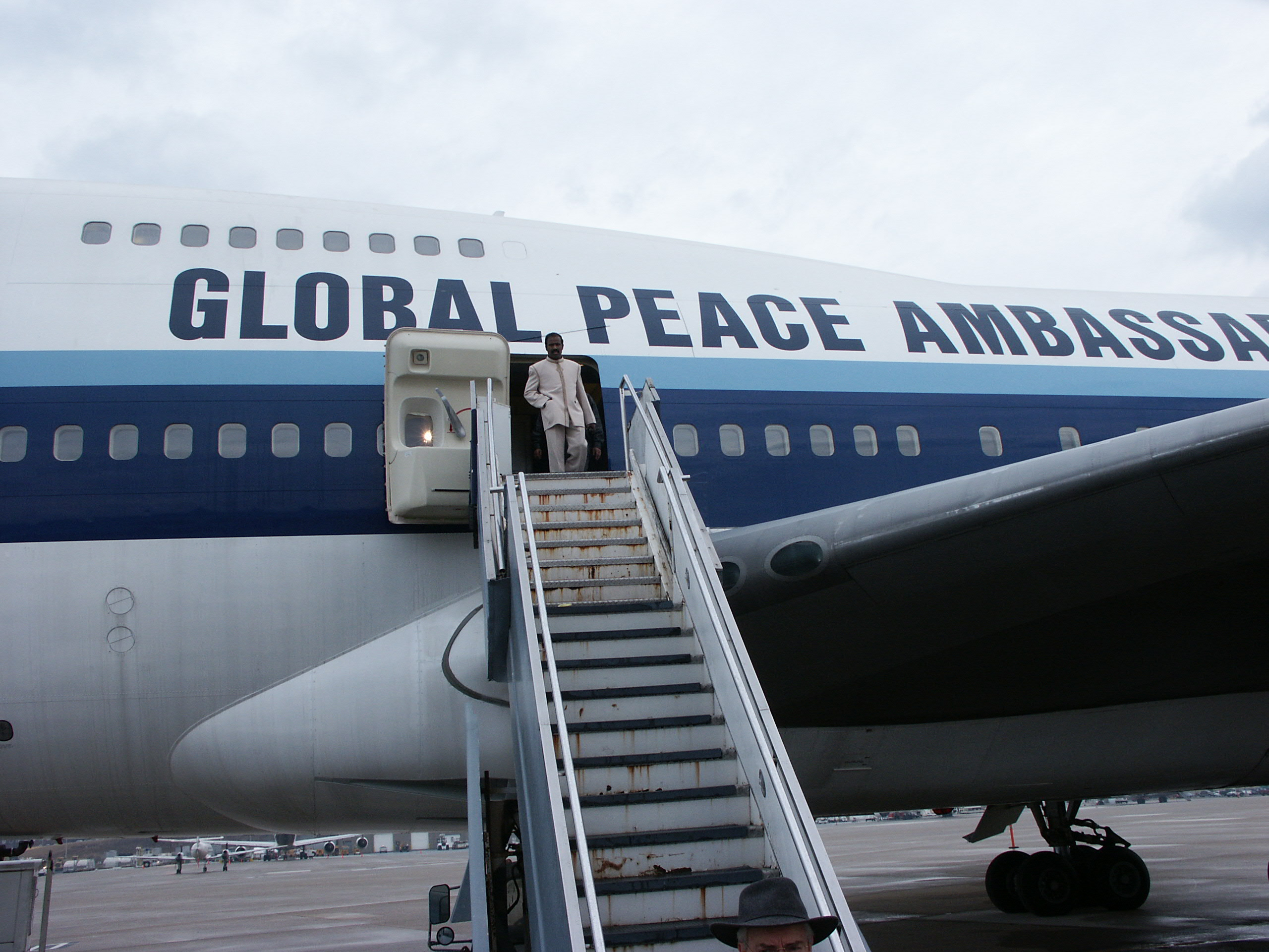 K.A. Paul, on March 2, 2004, coming off his organization's 747, Global Peace Ambassadors, dubbed "Global Peace 1" on a mission to Haiti to deliver 100,000 lbs. of food and to try to talk to rebel leaders about adopting peaceful protest means.